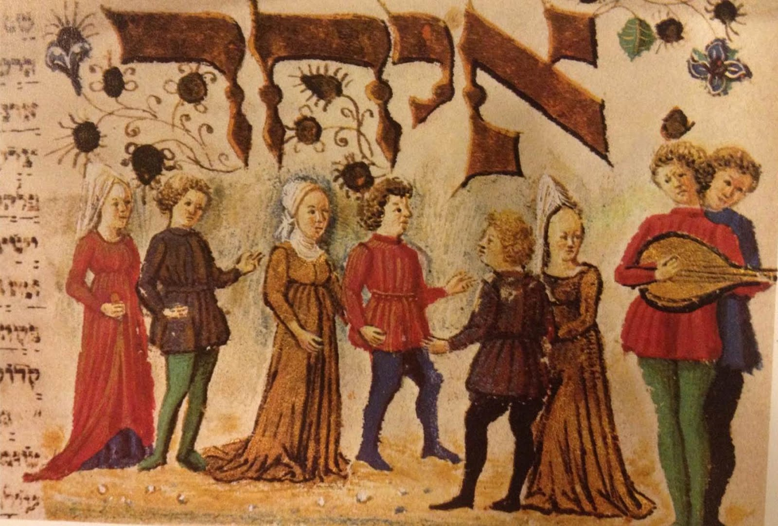 Rothschild Miscellany shows a Jewish custom at the time, mid-15th century, that of mixed dancing. The mixed dancing is that of couples, husband and wives dancing with each other, and not that of unmarried men and women dancing In Italy, where this manuscript was composed, mixed dancing was apparently common during this period.